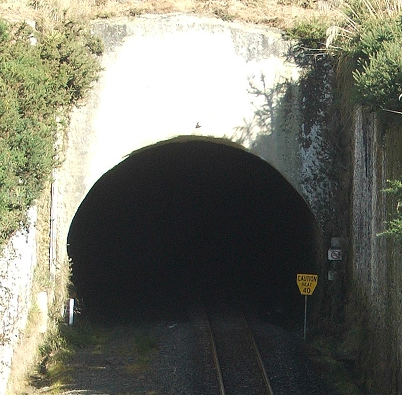 Caversham Rail Tunnel, Dunedin, New Zealand. Photograph by James Dignan (User: Grutness), April 3rd, 2009